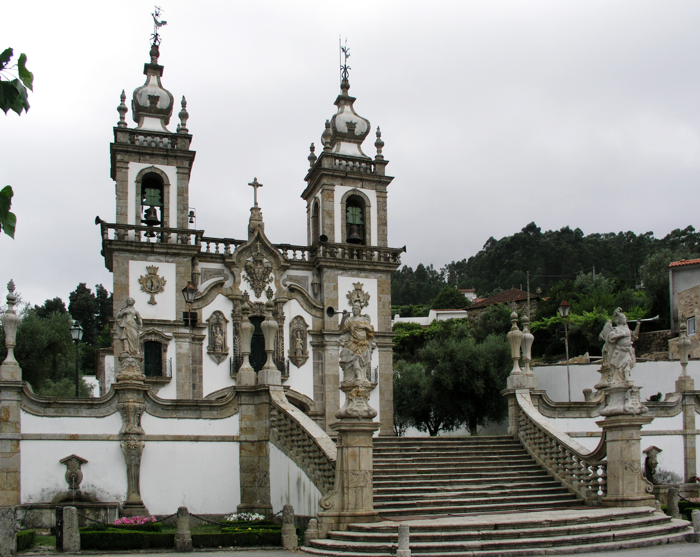 Church of Our Lord of Socorro, Labruja, parish/(freguesia), Ponte de Lima, Portugal. Portugal